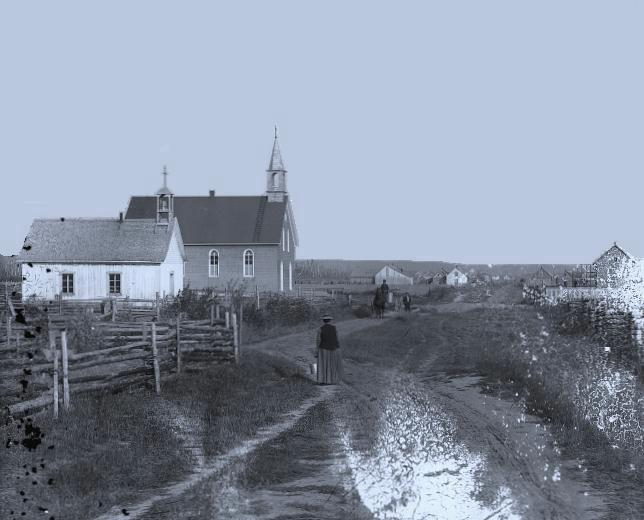 Photograph, Doré, Lake St. John, QC, about 1903, Wm. Notman & Son. Silver salts on glass - Gelatin dry plate process - 20 x 25 cm